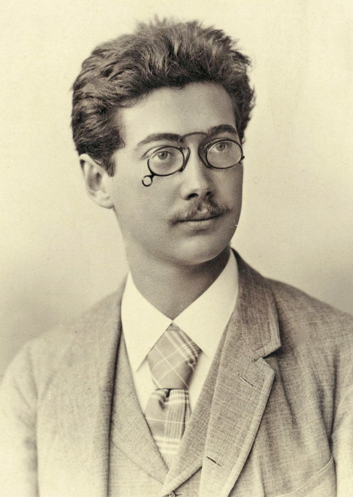 Picture of Gustav Landauer